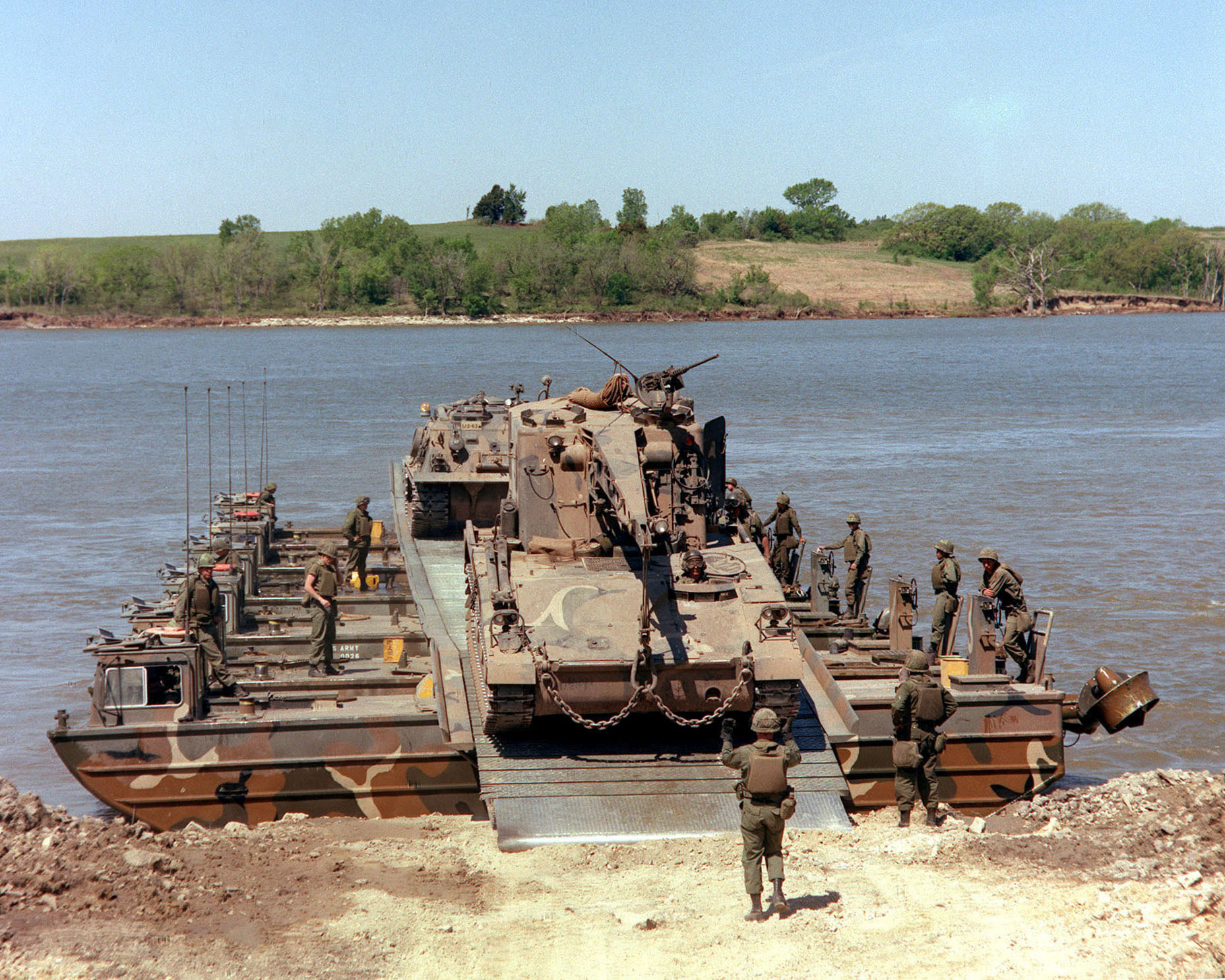 U.S. Army Mobile Floating Assault Bridge-Ferry river crossing exercise, Company E, 1st Engineer Battalion, 1st Infantry Division, Fort Riley, KS, 1980.